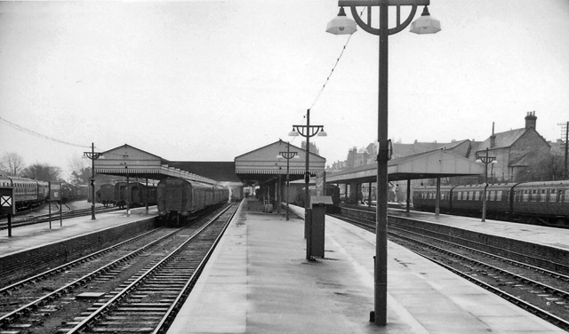 Bournemouth West Station. View eastward, to buffer-stops; terminus of ex-LSWR main line from London and Southampton via Bournemouth Central, also of lines from Poole, Broadstone, Wimborne etc. including the Somerset & Dorset Joint (S&DJ) line from Bath via Templecombe. The station was closed completely on 4/10/65 and all remaining services diverted to Bournemouth Central.